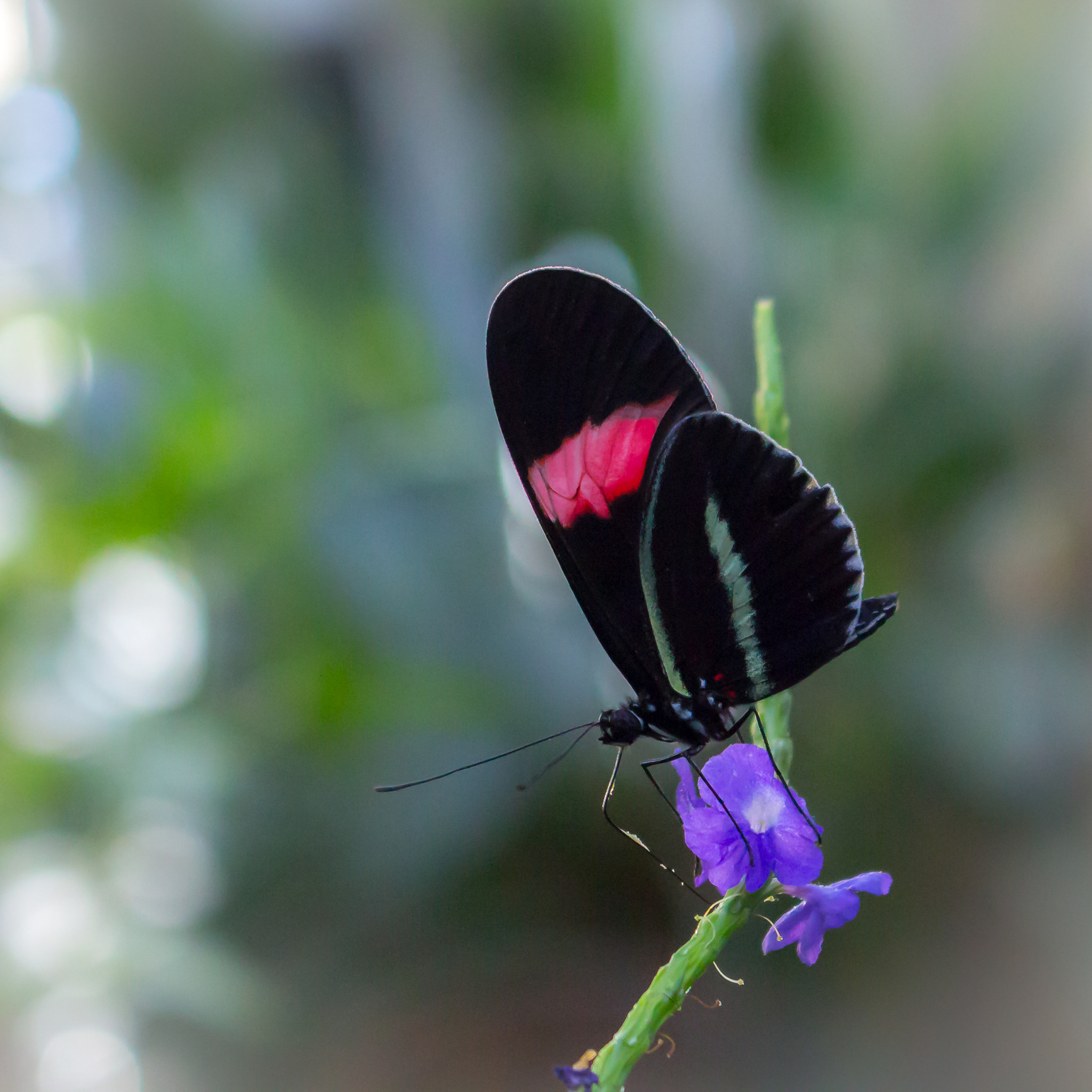 500px provided description: "Melpomene Longwing" butterfly at Frederik Meijer Gardens & Sculpture Park - Fred & Dorothy Fichter Butterflies are Blooming Exhibit (March 1 - April 30) - Heliconius Melpomene Rosina [#nature ,#flower ,#floral ,#butterfly ,#insect ,#garden ,#caterpillar ,#antenna ,#pollen ,#butterflies ,#delicate ,#moth ,#lepidoptera ,#larva ,#Springtime ,#Heliconius ,#Longwing]